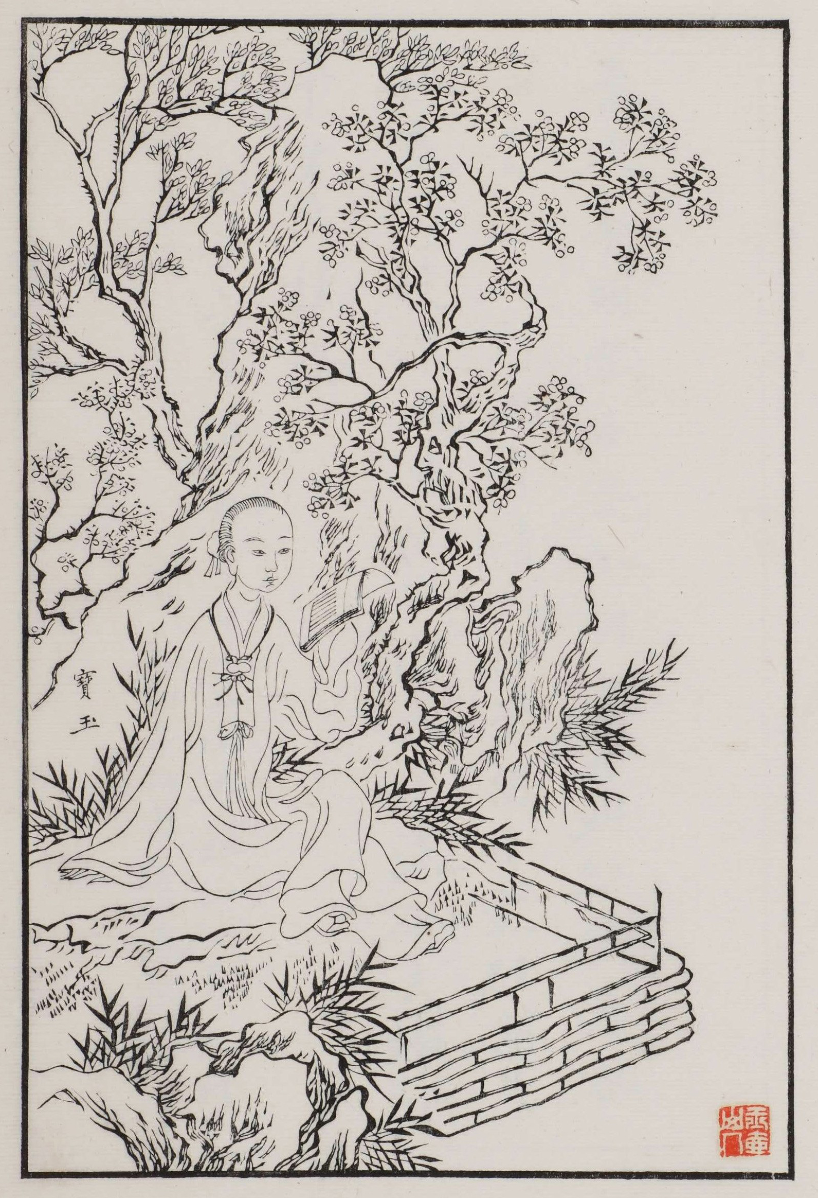 Jia Baoyu